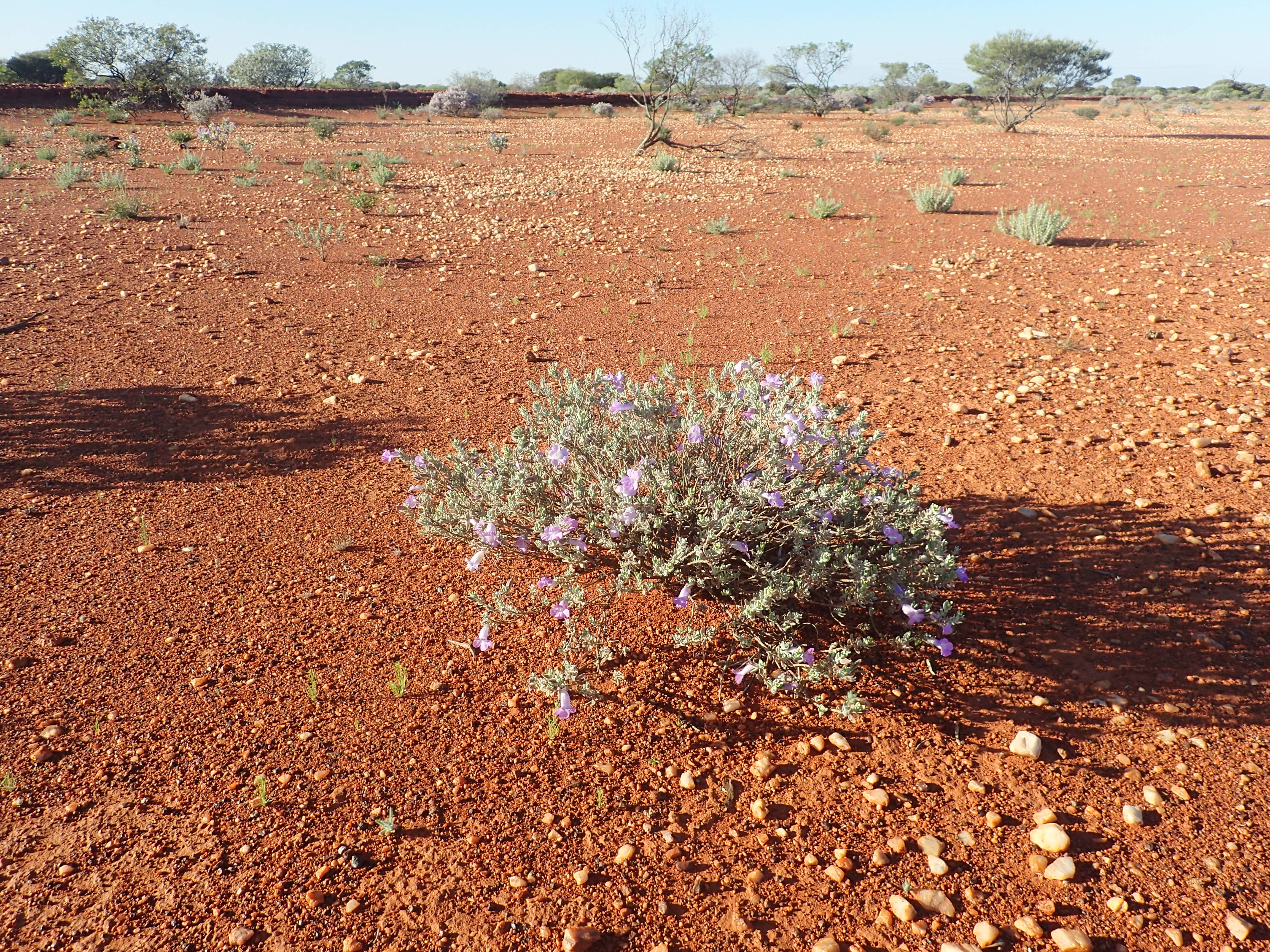 Eremophila demissa growing near the Great Northern Highway, 15km south of the Middle Gascoyne River bridge